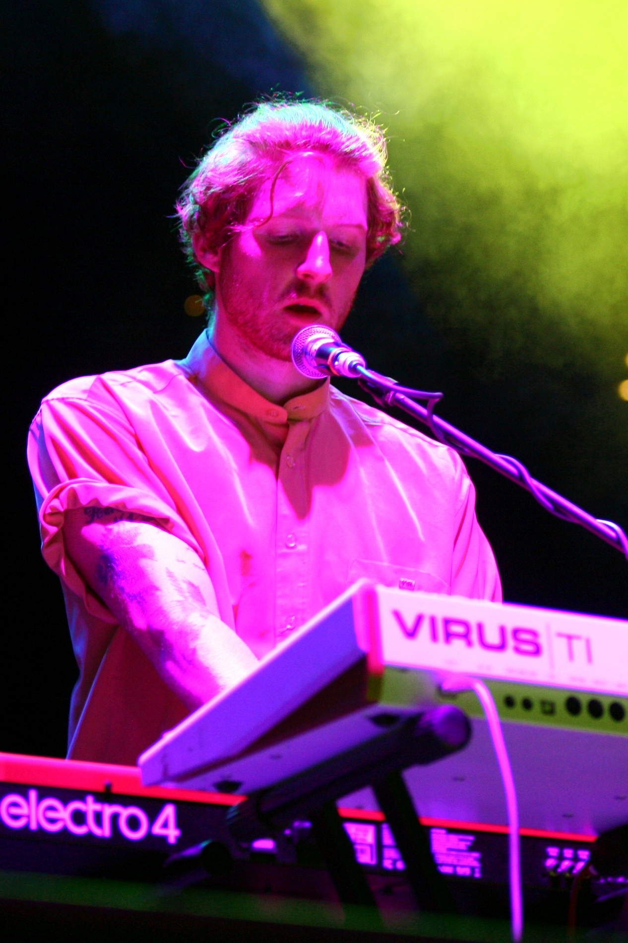 Daniel McIlvenny, bass guitarist of Breton, Rock im Park Festival 2014. Festivalsommer This photo was created with the support of donations to Wikimedia Deutschland in the context of the CPB project "Festival Summer".